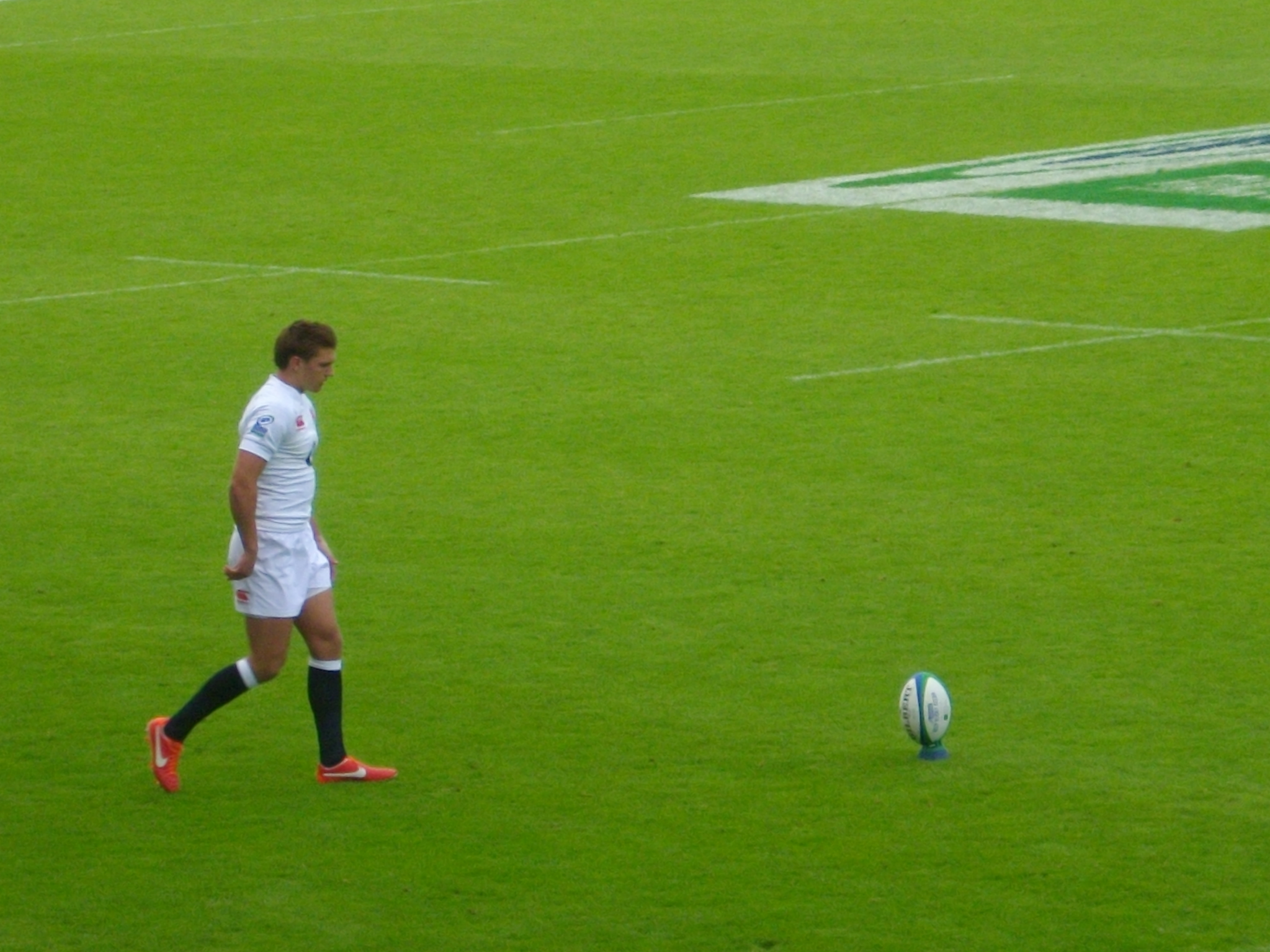 Final of the en:2013 IRB Junior World Championship, between England and Wales teams, in Rabine stadium of Vannes (Morbihan, France), 23 June 2013. Henry Slade.